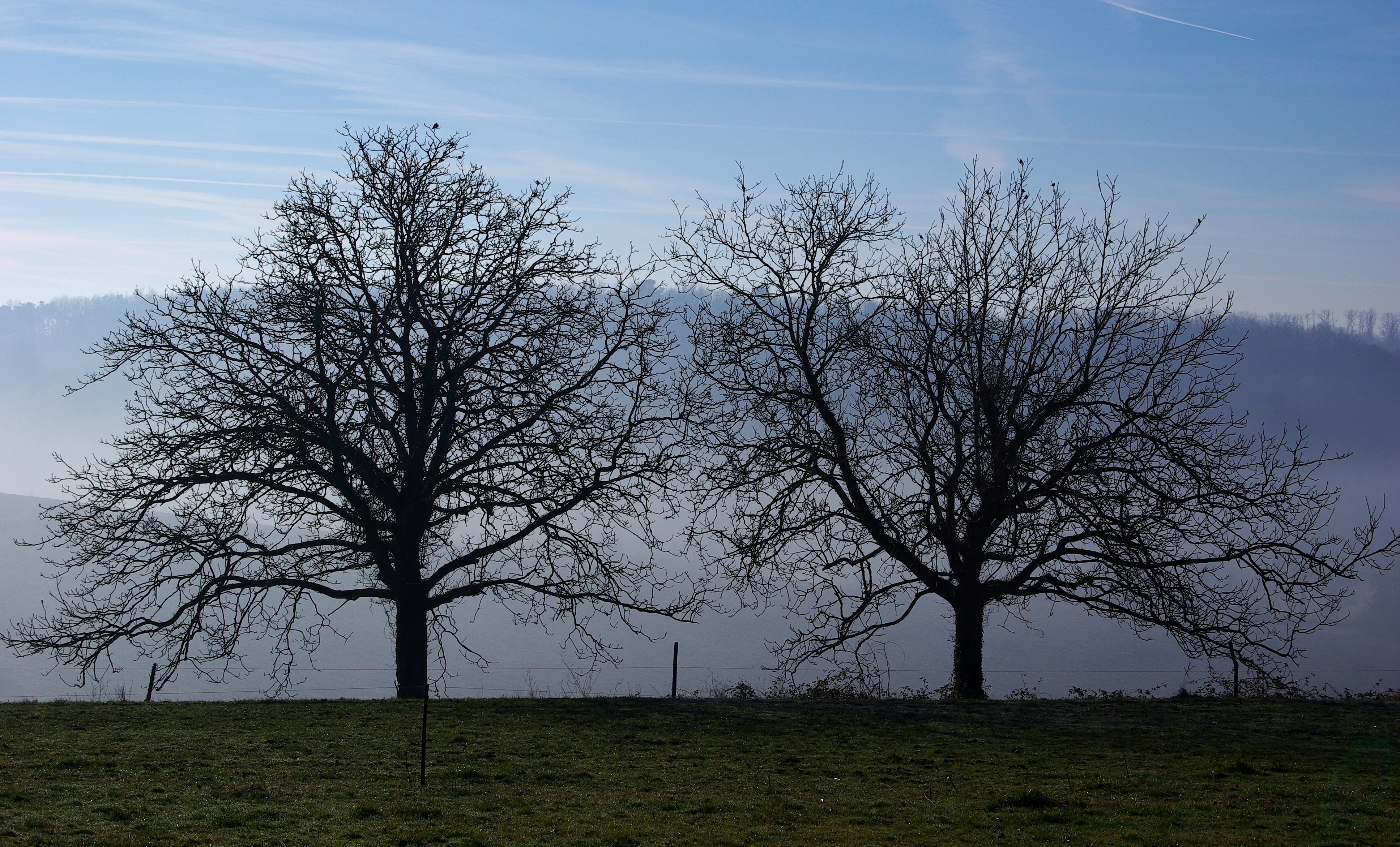 Common walnuts (Juglans regia) in winter, near Blanzac-Porcheresse, Charente, France.